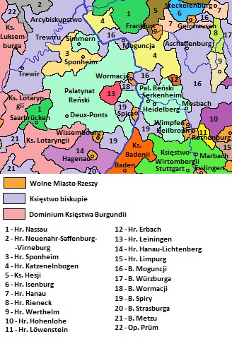 Electoral Rhenish in 1447